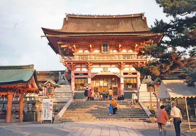 Fushimi Inari Shinto Shrine Kyoto Japan I took this photograph and contribute it to the public domain.